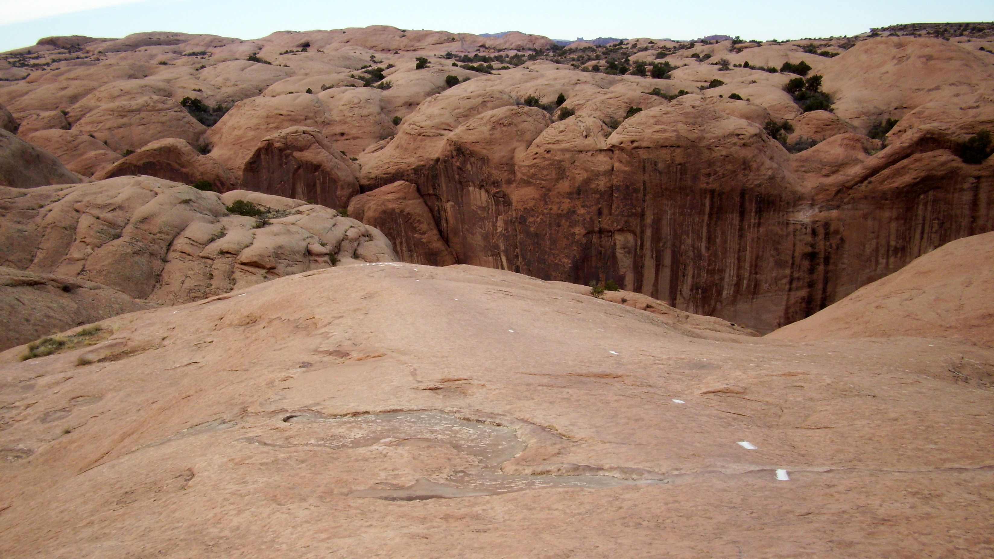 Practice loop of Slickrock Bike Trail, Moab, Utah.